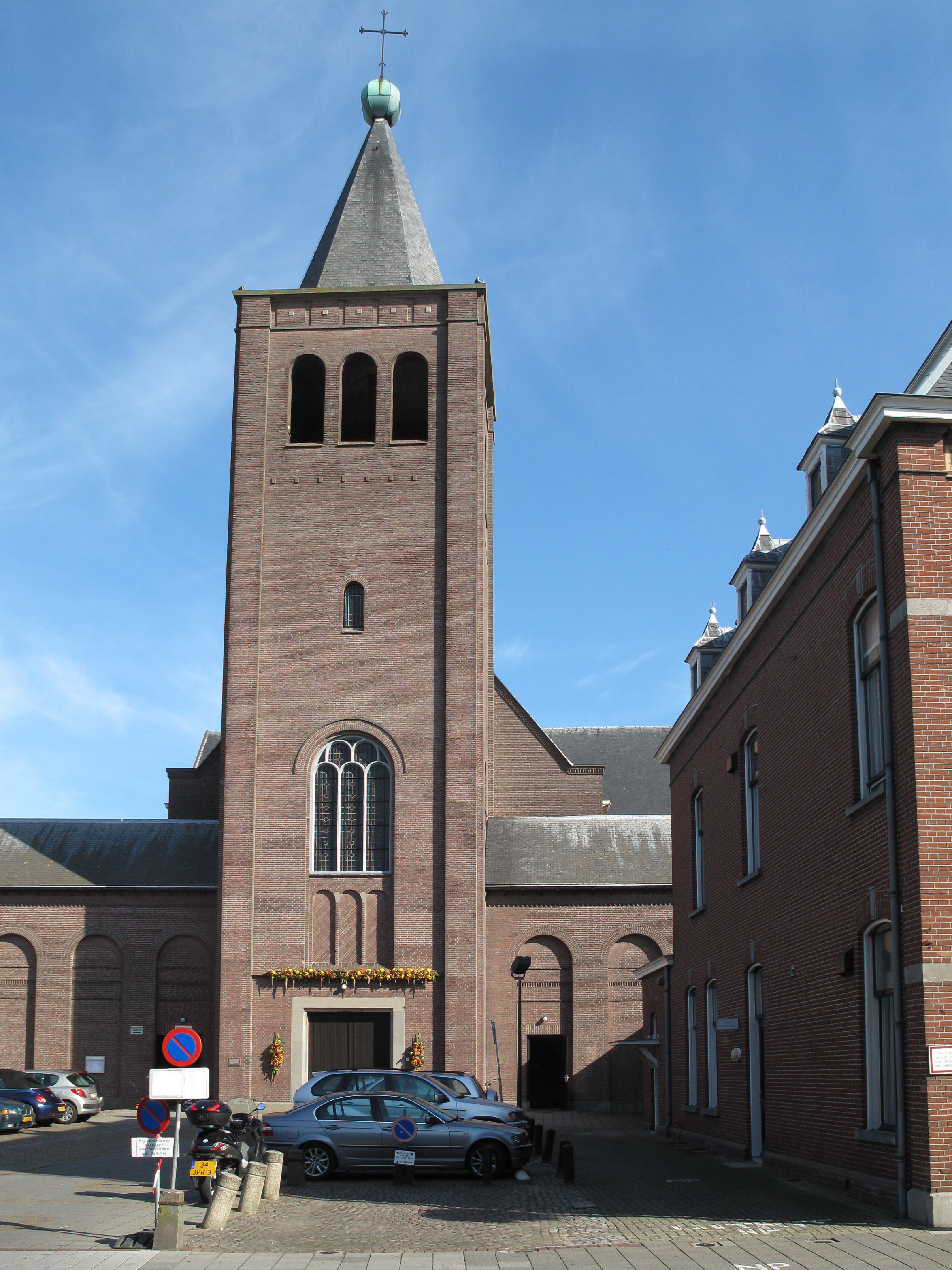 Baarle Nassau, church: Onze Lieve Vrouw van Altijddurende bijstand